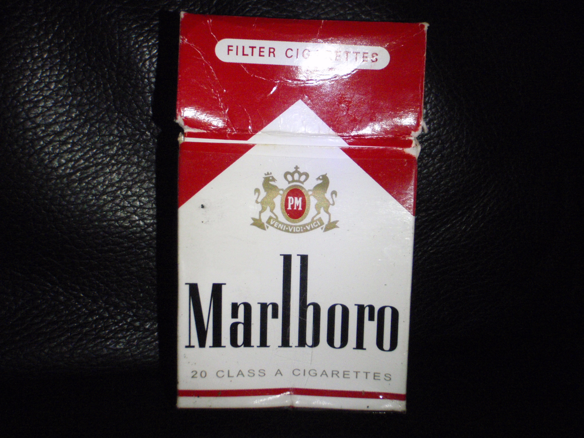 Marlboro KS-7-H (red and white) - Malaysia and USA